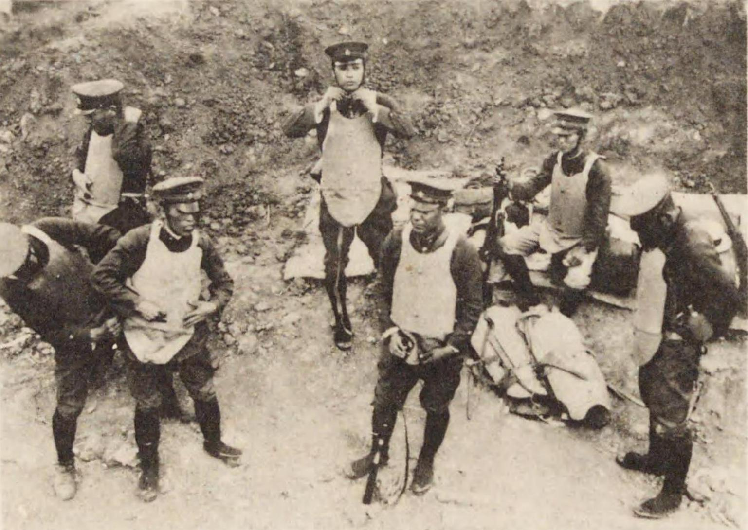 Japanese policemen in bullet-proved uniforms.